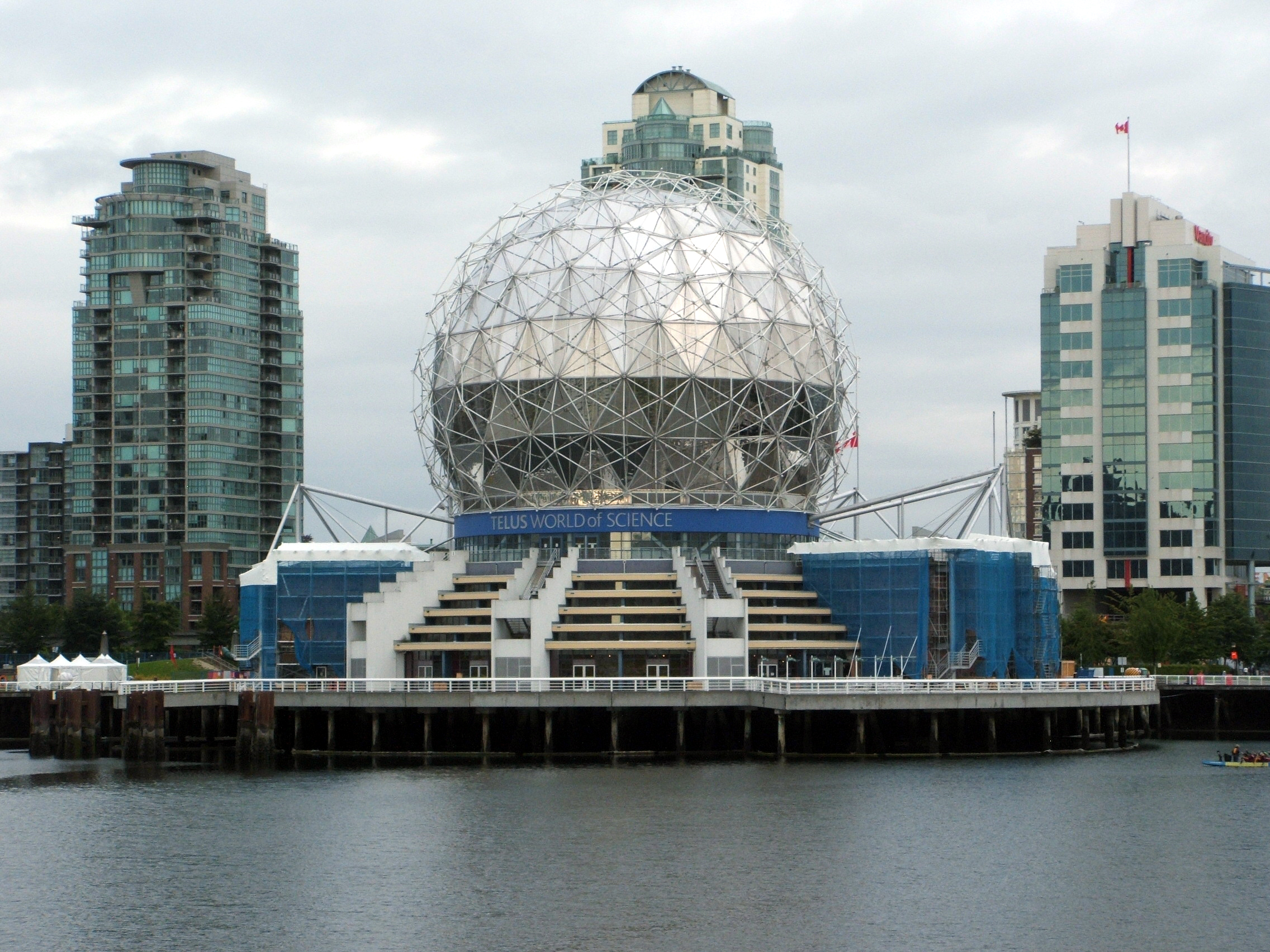 Science World Museum, Vancouver, Canada, Vancouver.